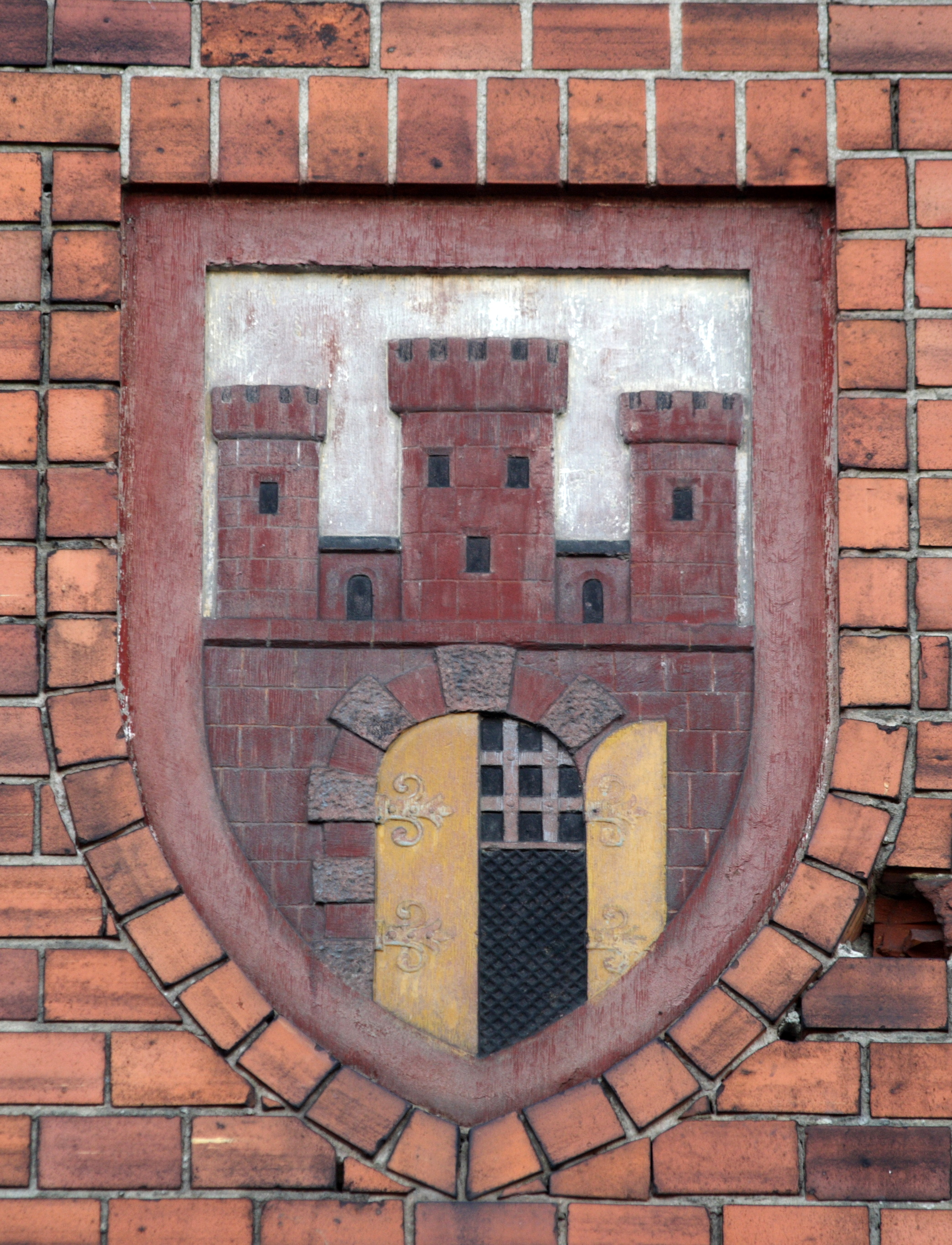 Toruń, Toruń Wschodni train station, coats of arms of Toruń.